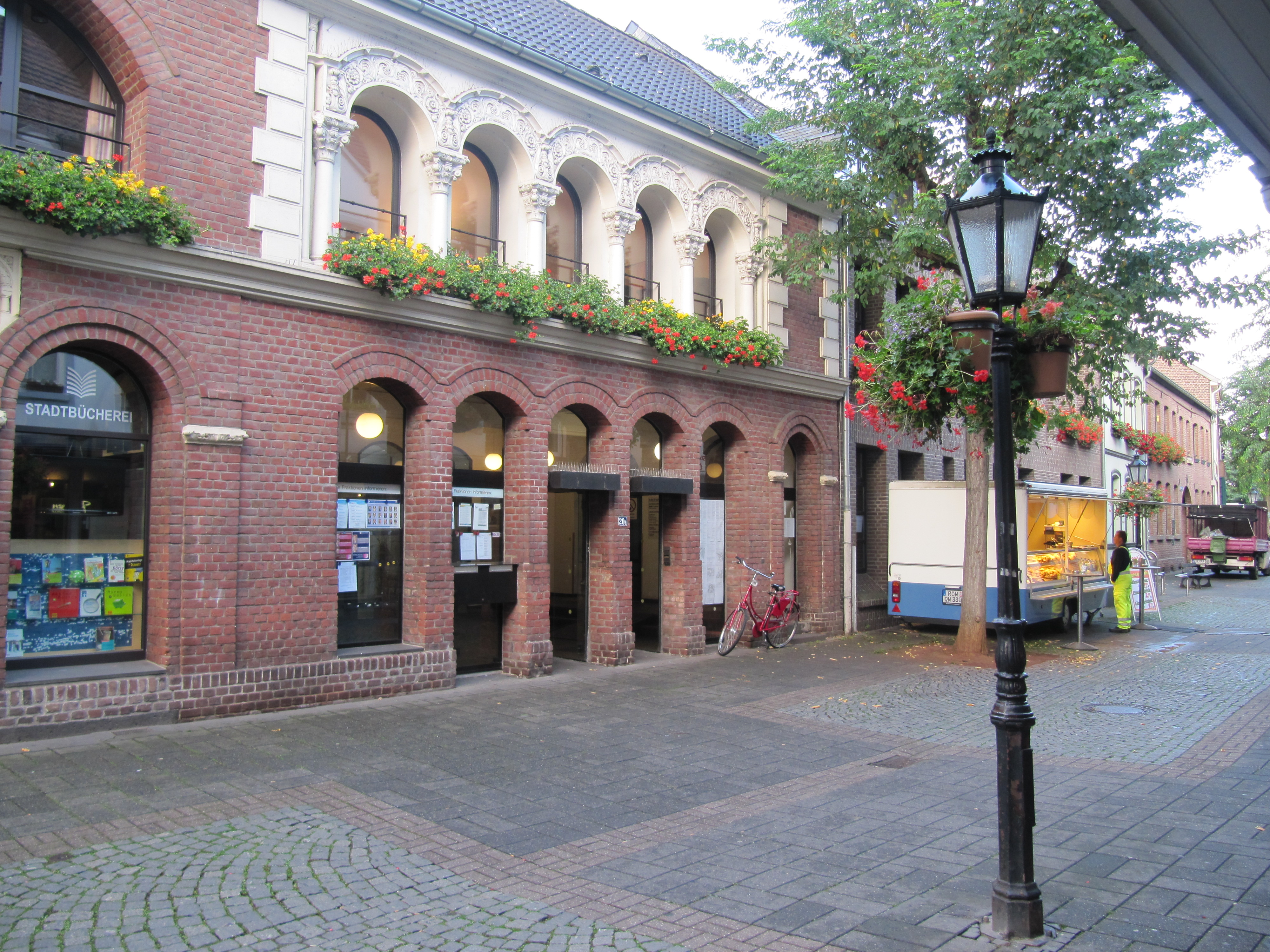 Tönisvorst, district of Viersen, North Rhine-Westphalia, Germany, part Sankt Tönis. Town hall, arcades.